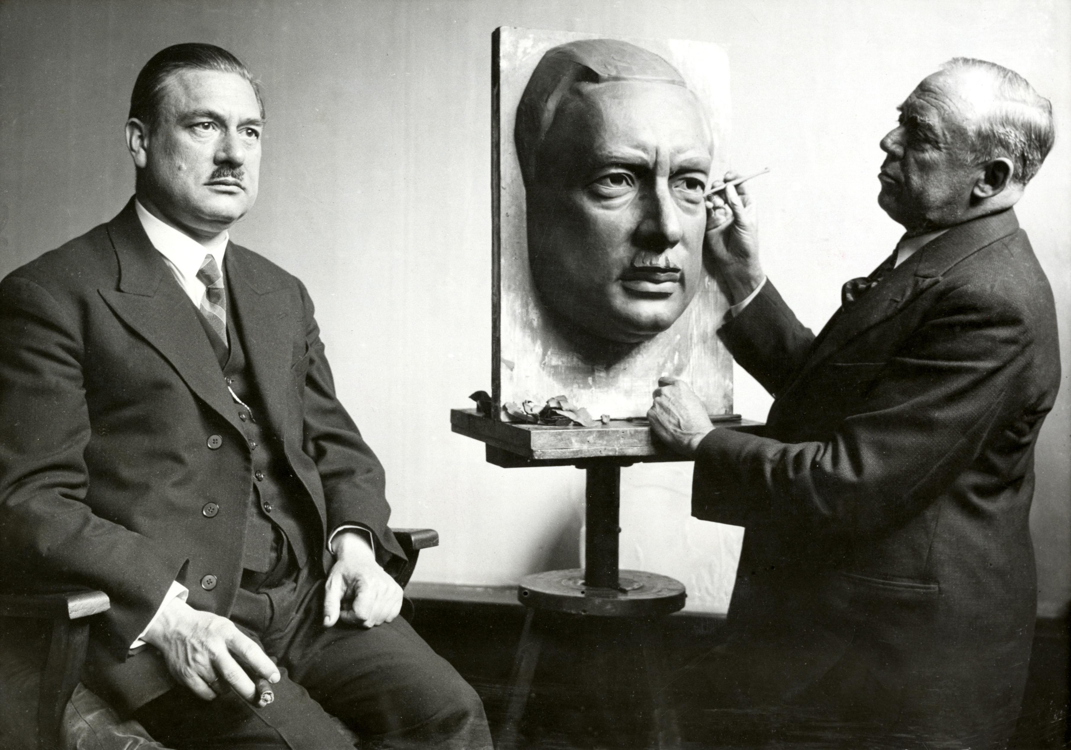 Peter Debye poses for the sculptor Tjipke Visser in Amsterdam